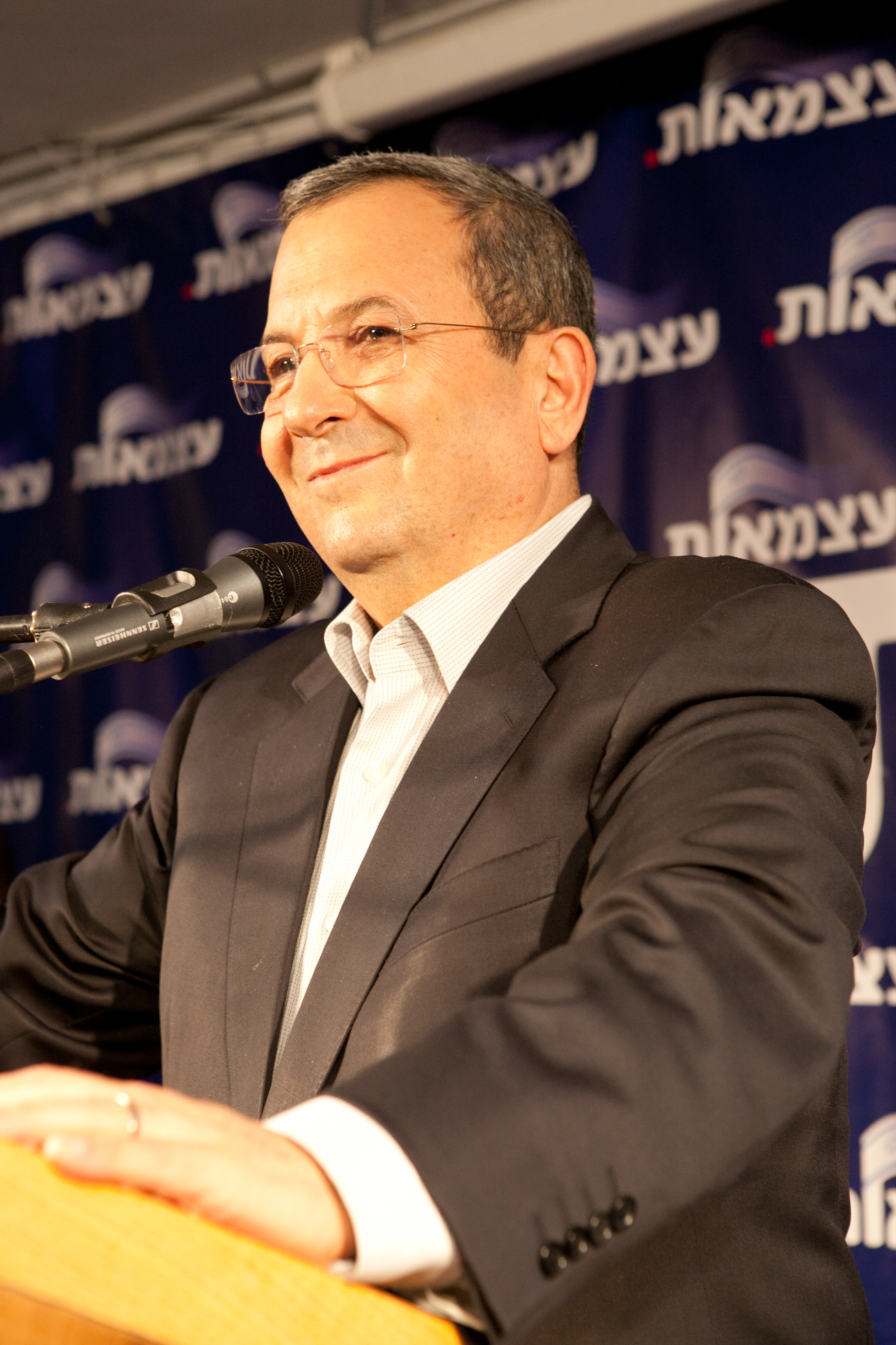 Ehud Barak (Hebrew: אהוד ברק; born Ehud Brog; 12 February 1942) is an Israeli politician who served as Prime Minister from 1999 to 2001. He was leader of the Labor Party until January 2011[1] and holds the posts of Minister of Defense and Deputy Prime Minister in Binyamin Netanyahu's government.